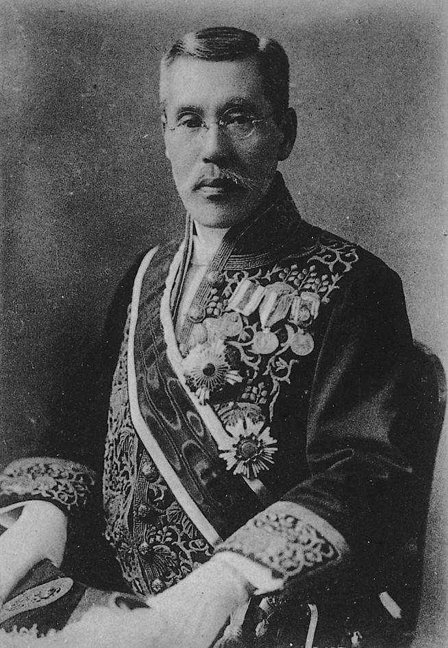 Portrait of Hiranuma Kiichiro (平沼騏一郎, 1867 – 1952)